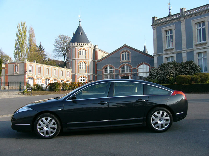 Citroën C6